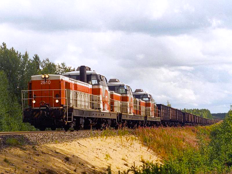 A trio of Dr16 diesel-electric locomotives hauling a 5200-ton Kostamus-to-Raahe taconite train up the Hangas hill near Pikkarala station, in Oulu, Finland, on 1 September 2001.